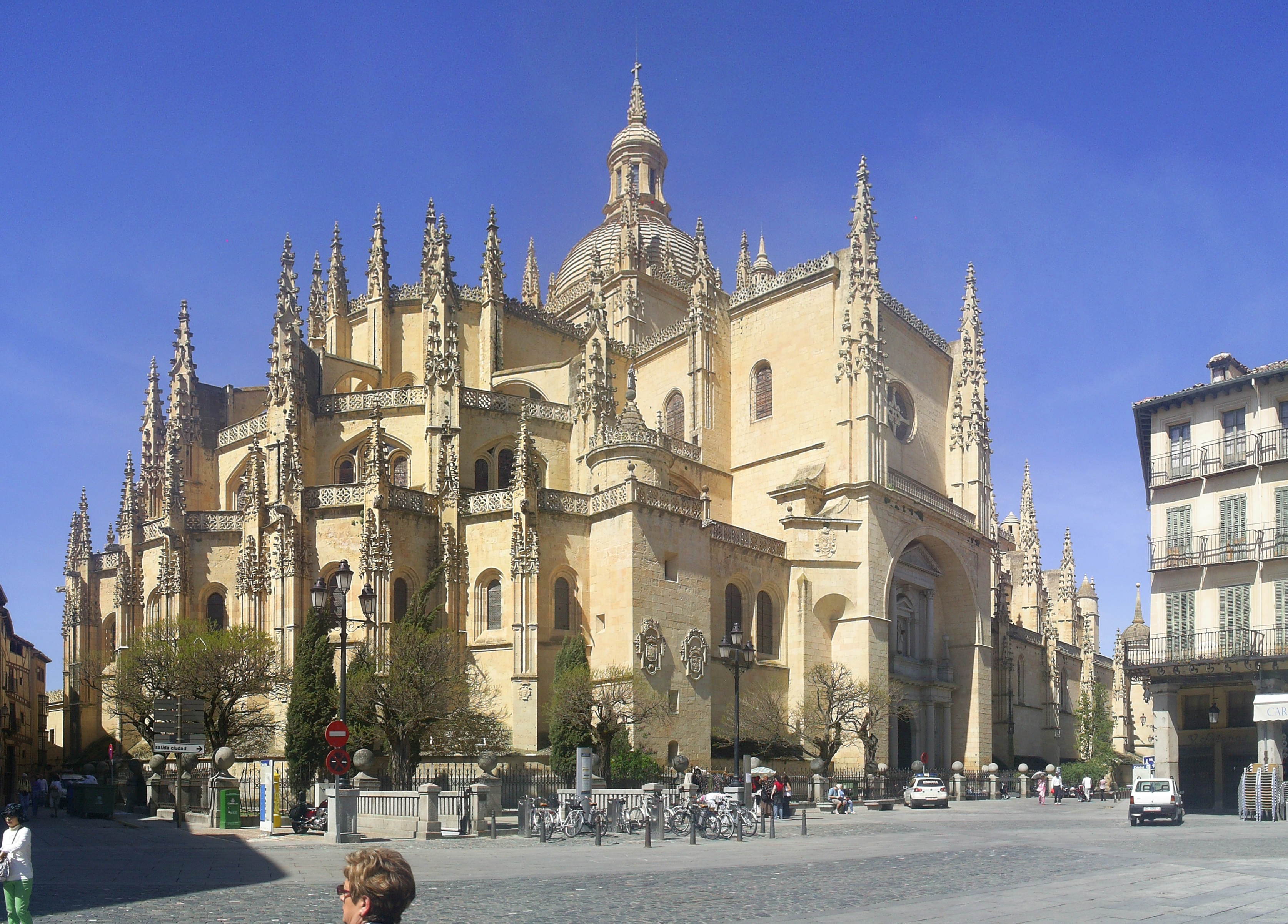 Catedral de Segovia. Segovia Cathedral Native nameCatedral de Santa María de SegoviaLocationSegovia , (Spain)Coordinates40° 57′ 00.65″ N, 4° 07′ 32.24″ W EstablishedMiddle AgeWeb page control : Q1499912 VIAF: 151939123 ISNI: 0000 0001 0672 8869 LCCN: n81124924 NLA: 36562756 BIC: RI-51-0000862 WorldCat institution QS:P195,Q1499912